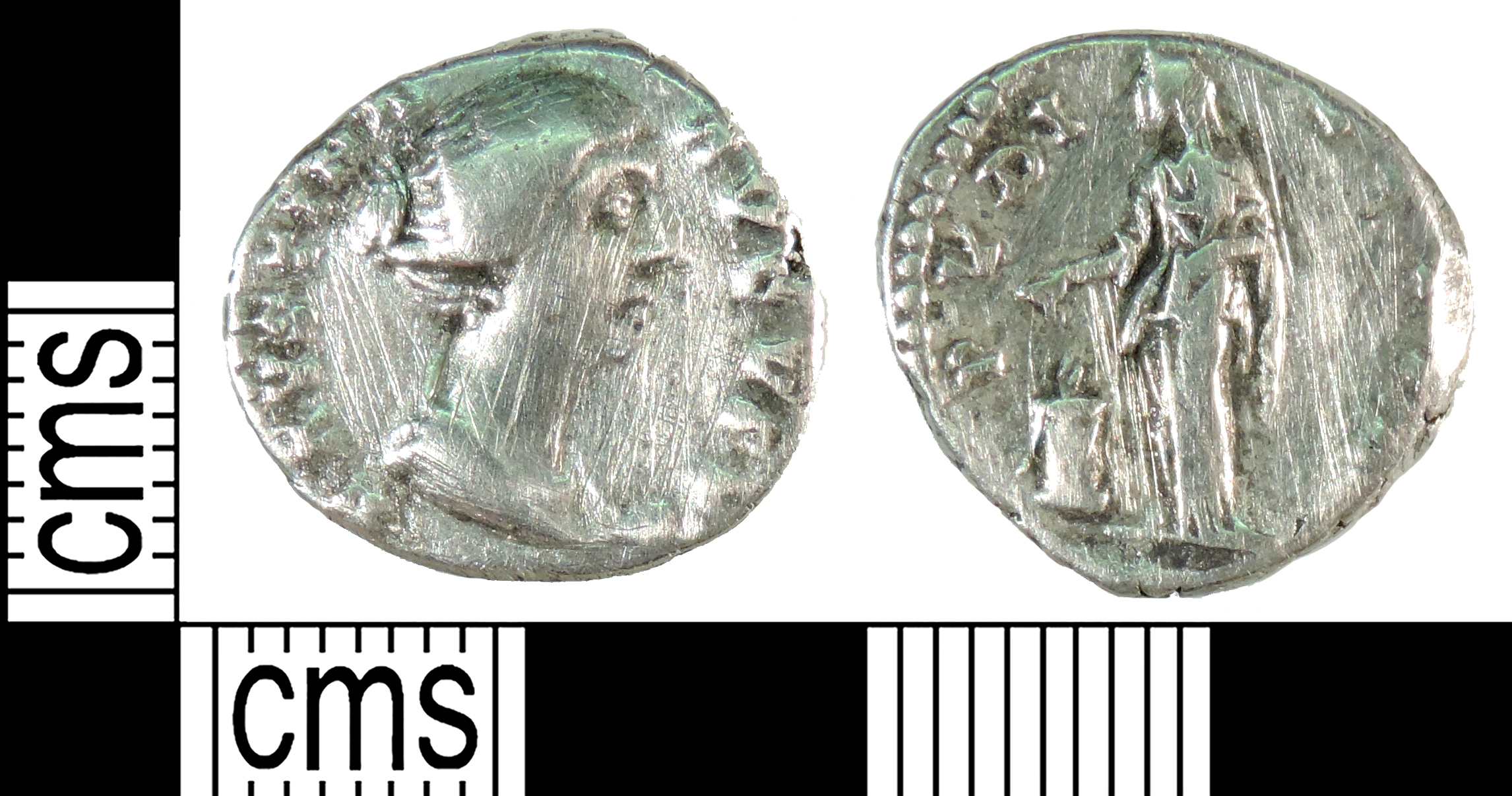 A silver denarius of Faustina II struck under Marcus Aurelius dating to the period AD 161 - 175 (Reece Period 8). PVDICITIA reverse type depicting Pudicitia veiled standing left sacrificing at lighted altar. Mint of Rome. RIC III, p.270, no.708.